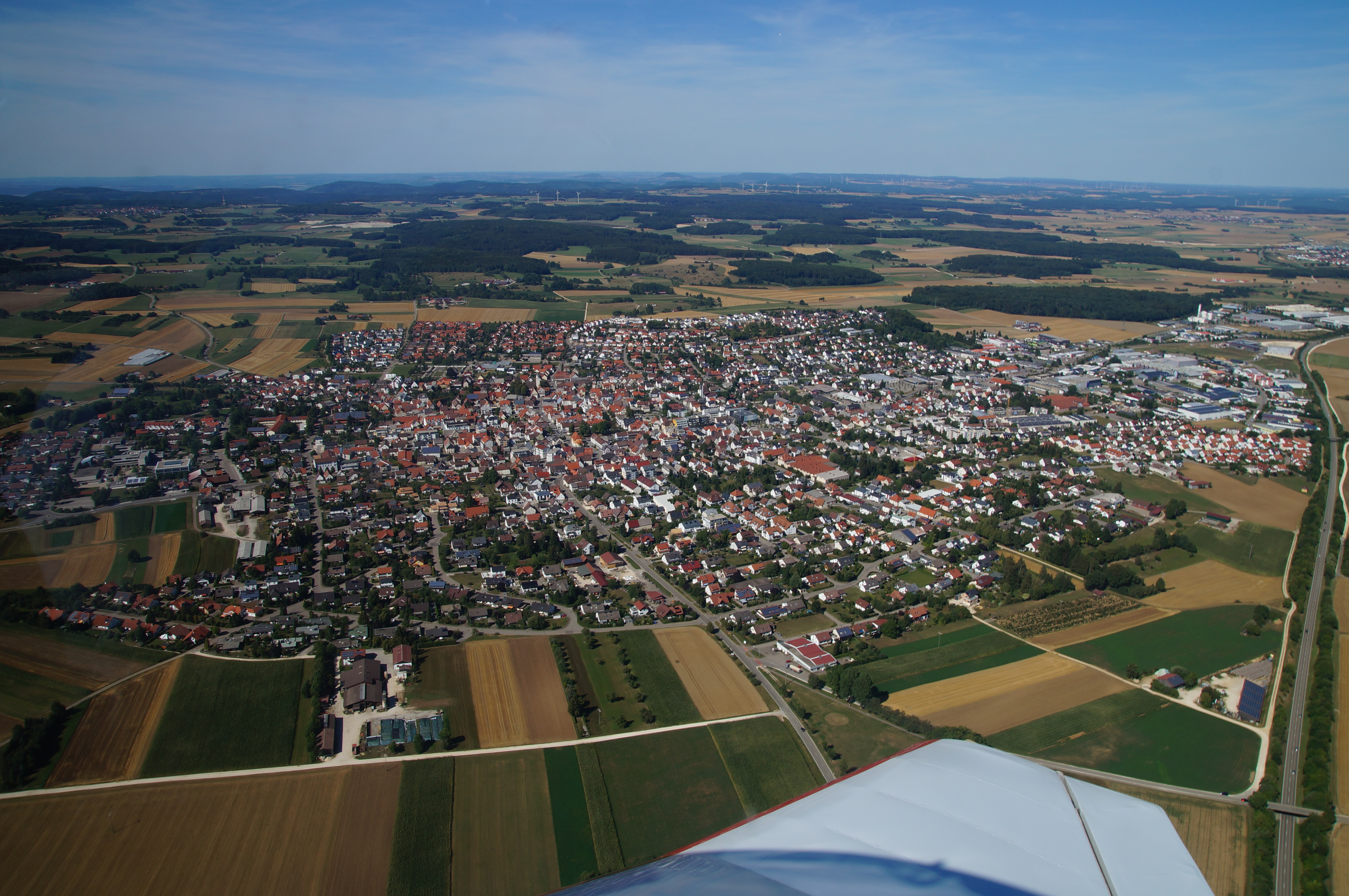 aerial photograph of Laichingen taken from south-west